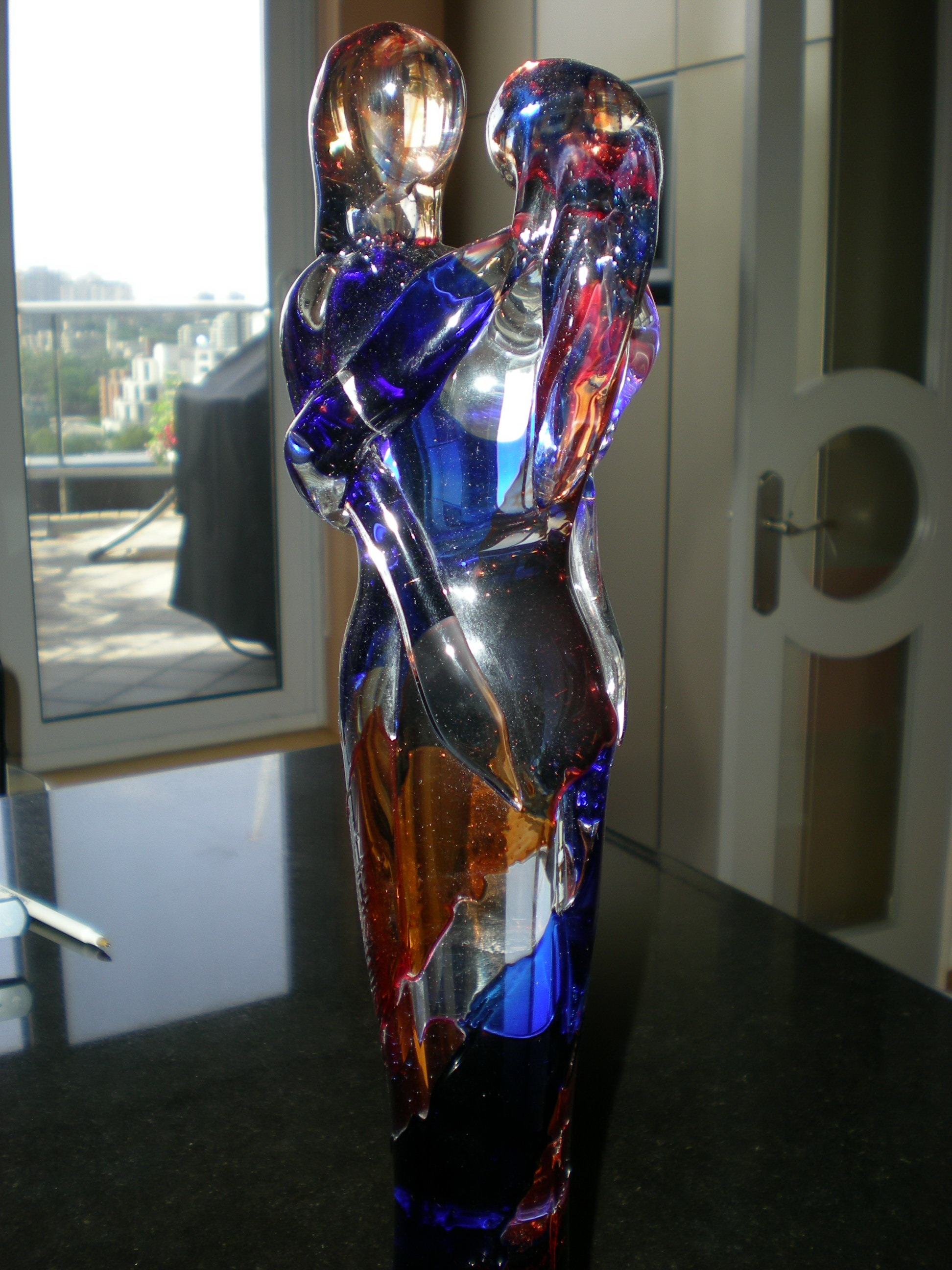 a sculpture. used the fill-in flash for first time cause it was quite brightly backlit...turned out ok i think, brilliant colours